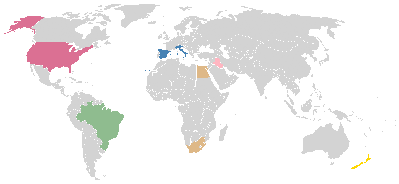 Description Teams of , Date24 April 2009Sourceown work based on File:FIFA WM 2006 Teams.pngAuthor44Charles Teams of